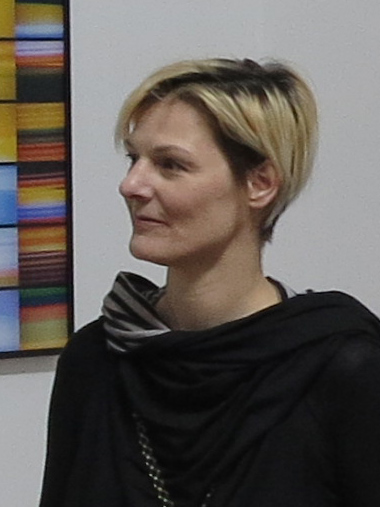 Austrian designer and artist, Tina Frank